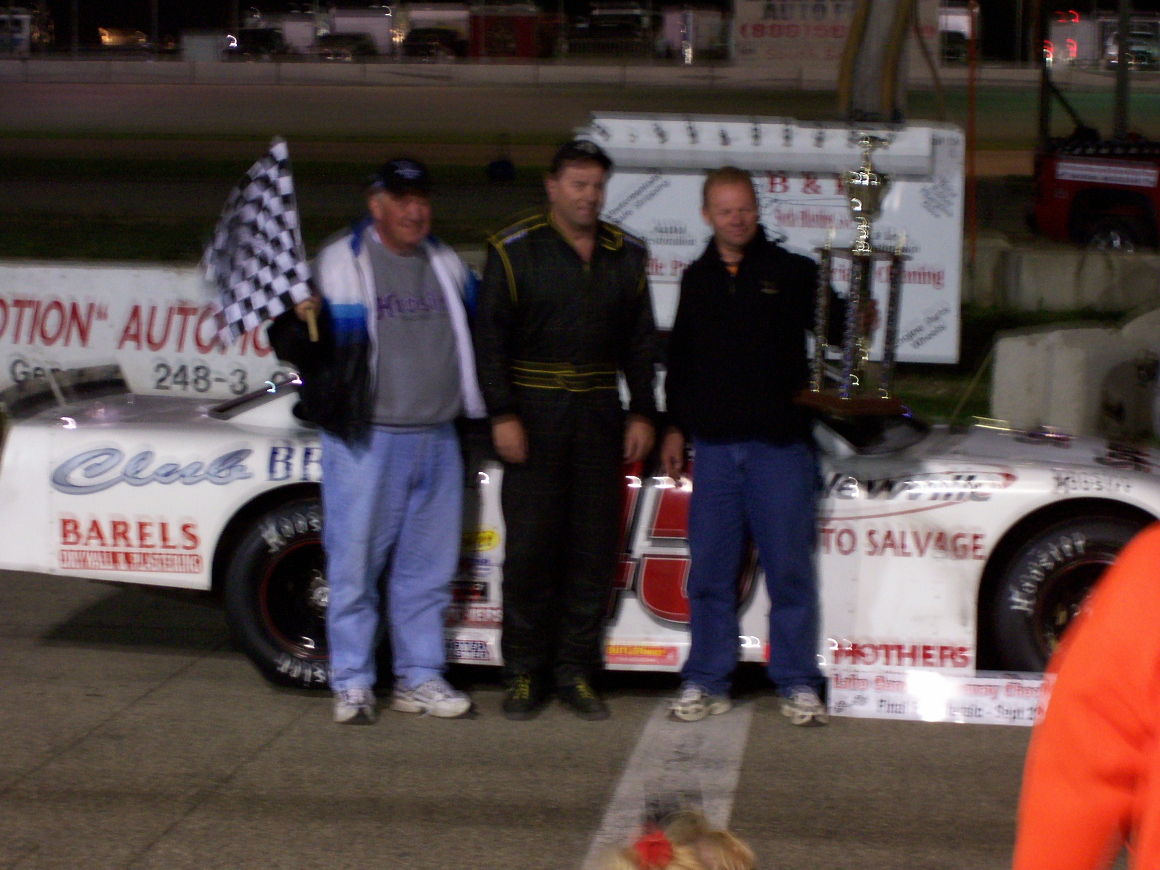 NASCAR driver Rich Bickle (center) after winning the final official stockcar race at Lake Geneva Raceway in Lake Geneva, Wisconsin, United States. The first winner at the track is on the left.